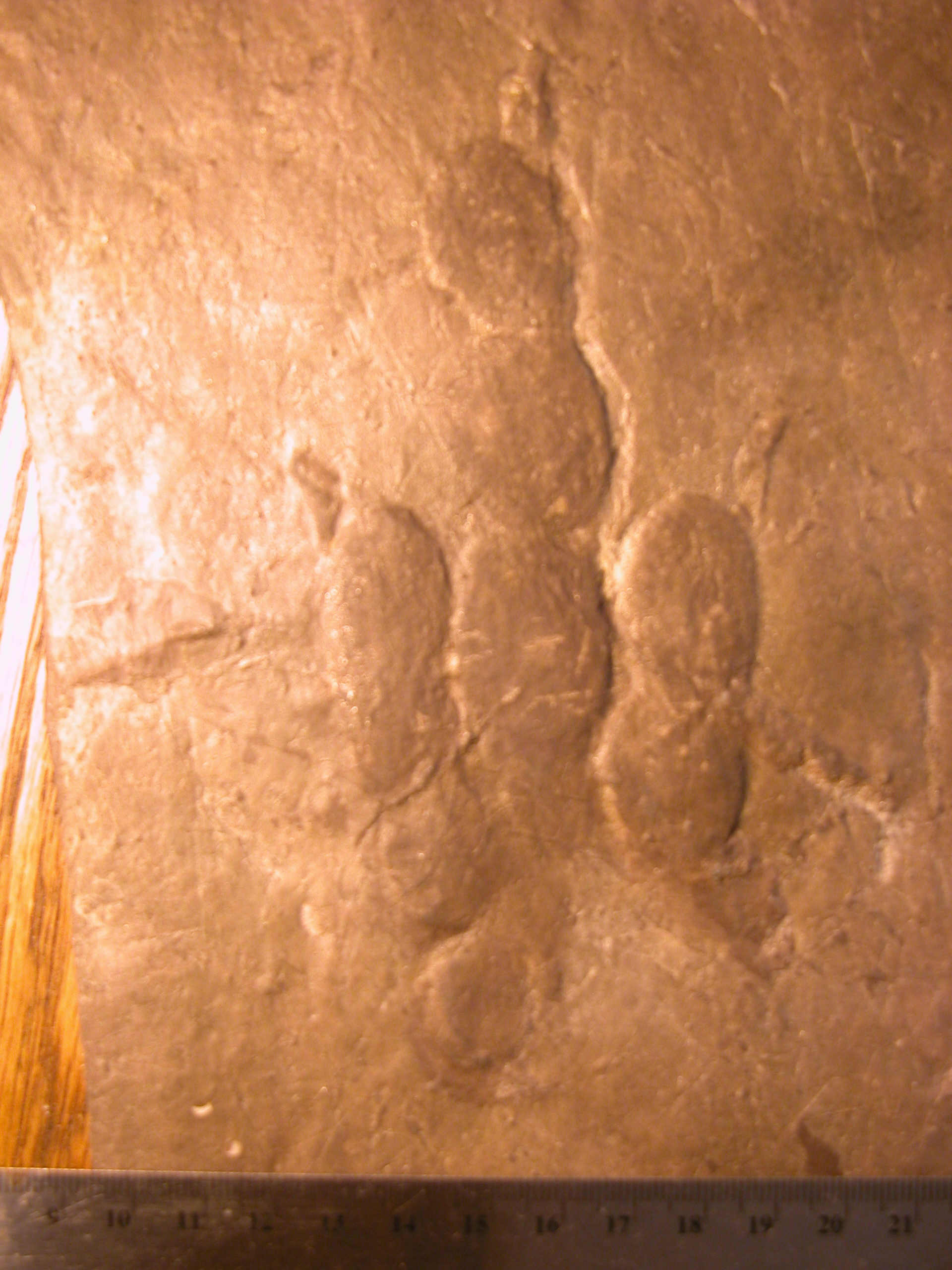 Lamont-Doherty Earth Observatory specimen of Ichnogenus Grallator